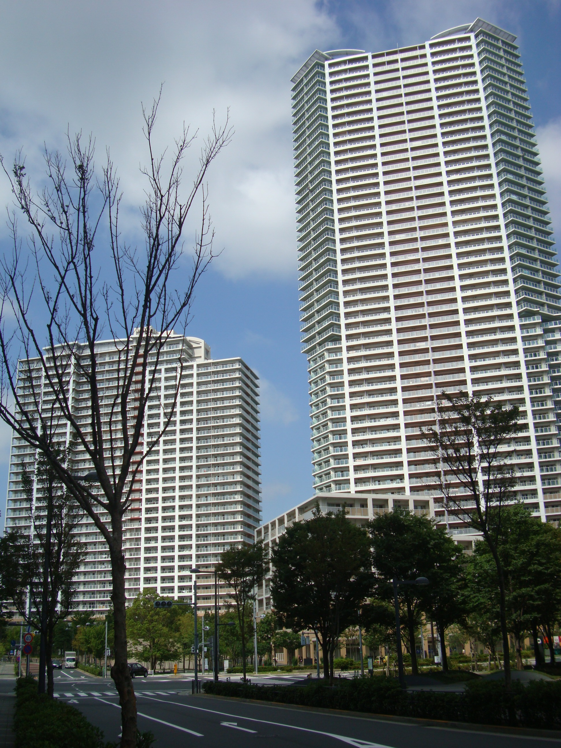 The Park City Toyosu residential complex, Toyosu, Koto city, Tokyo